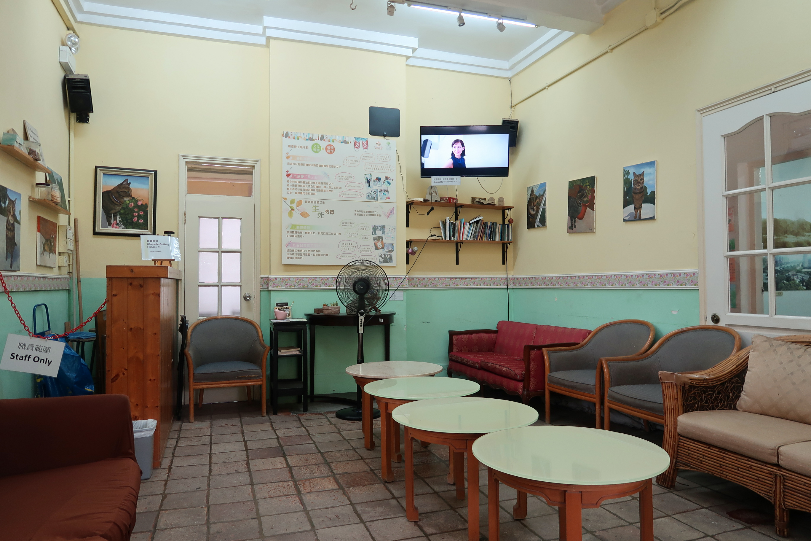 High Rock Christian Camp